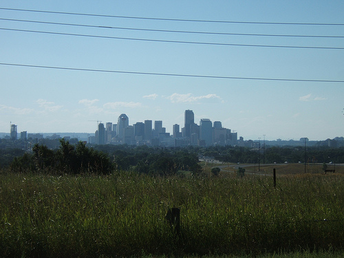 Calgary skyline looking west